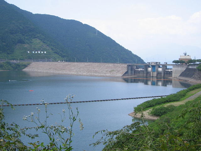 Agigawa dam AND Agigawa Lake